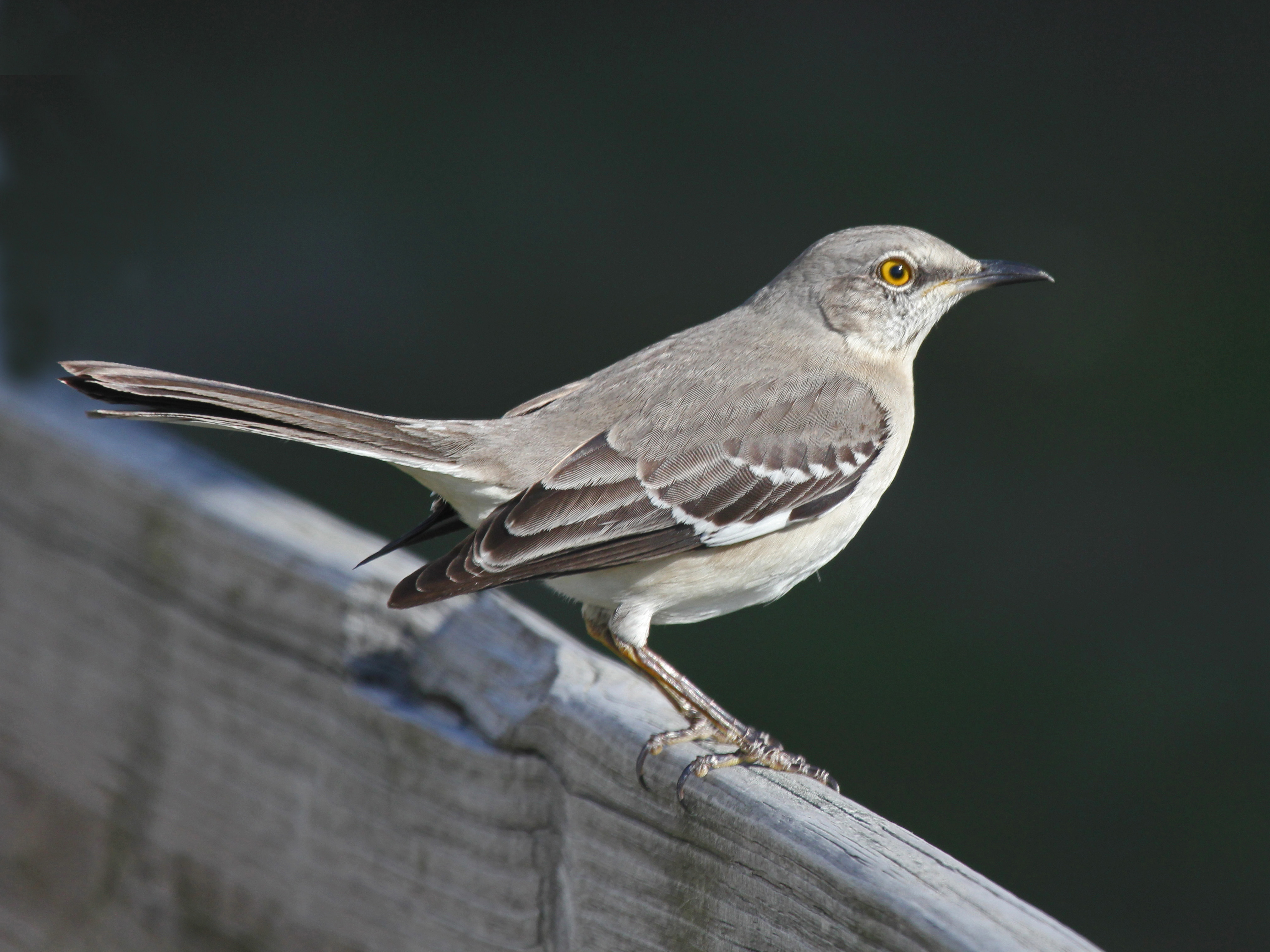 Northern Mockingbird (Mimus polyglottos) - Sunset Beach, North Carolina